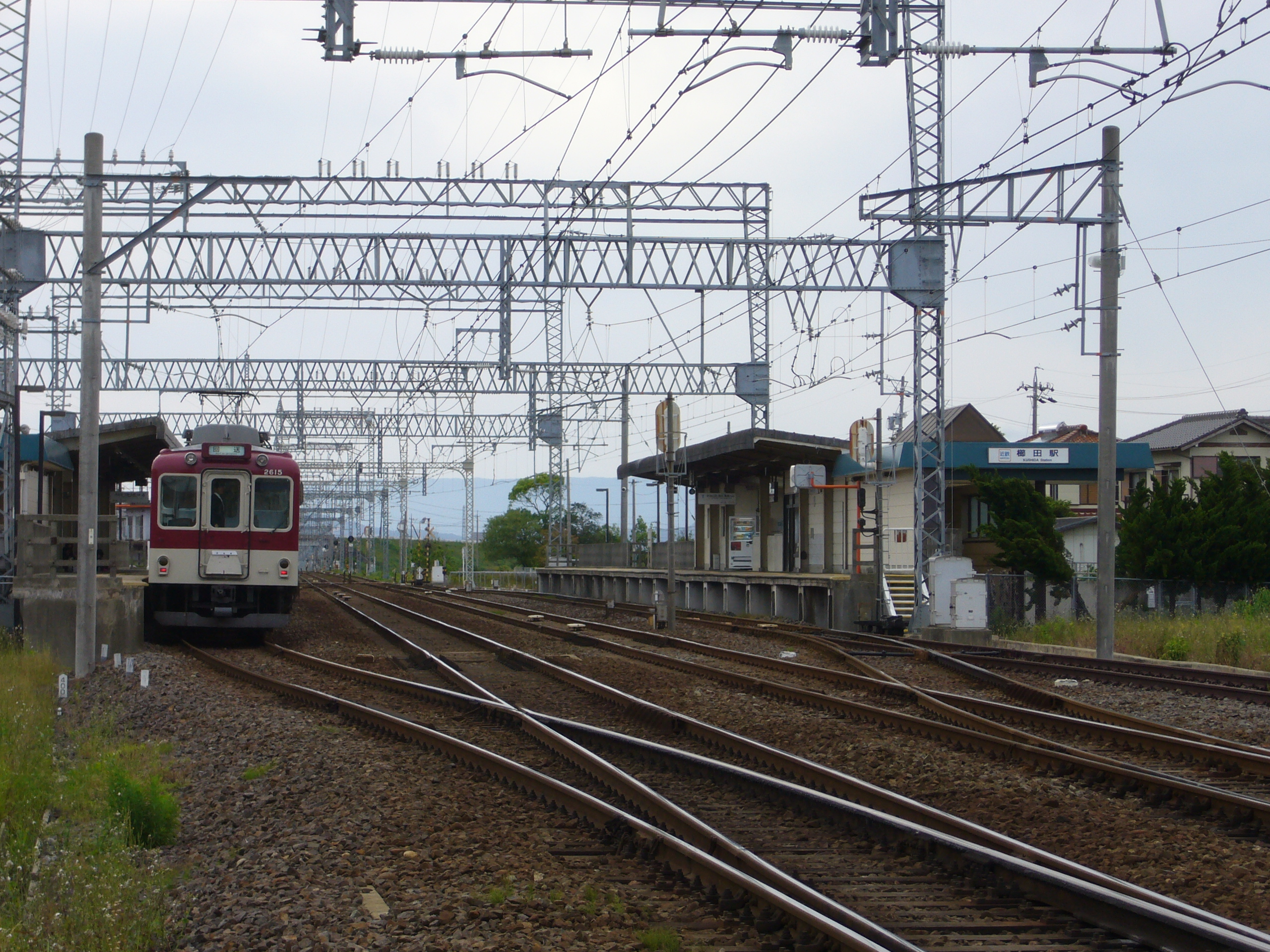 This picture means appearance of Kushida station,Kintetsu Yamada line.